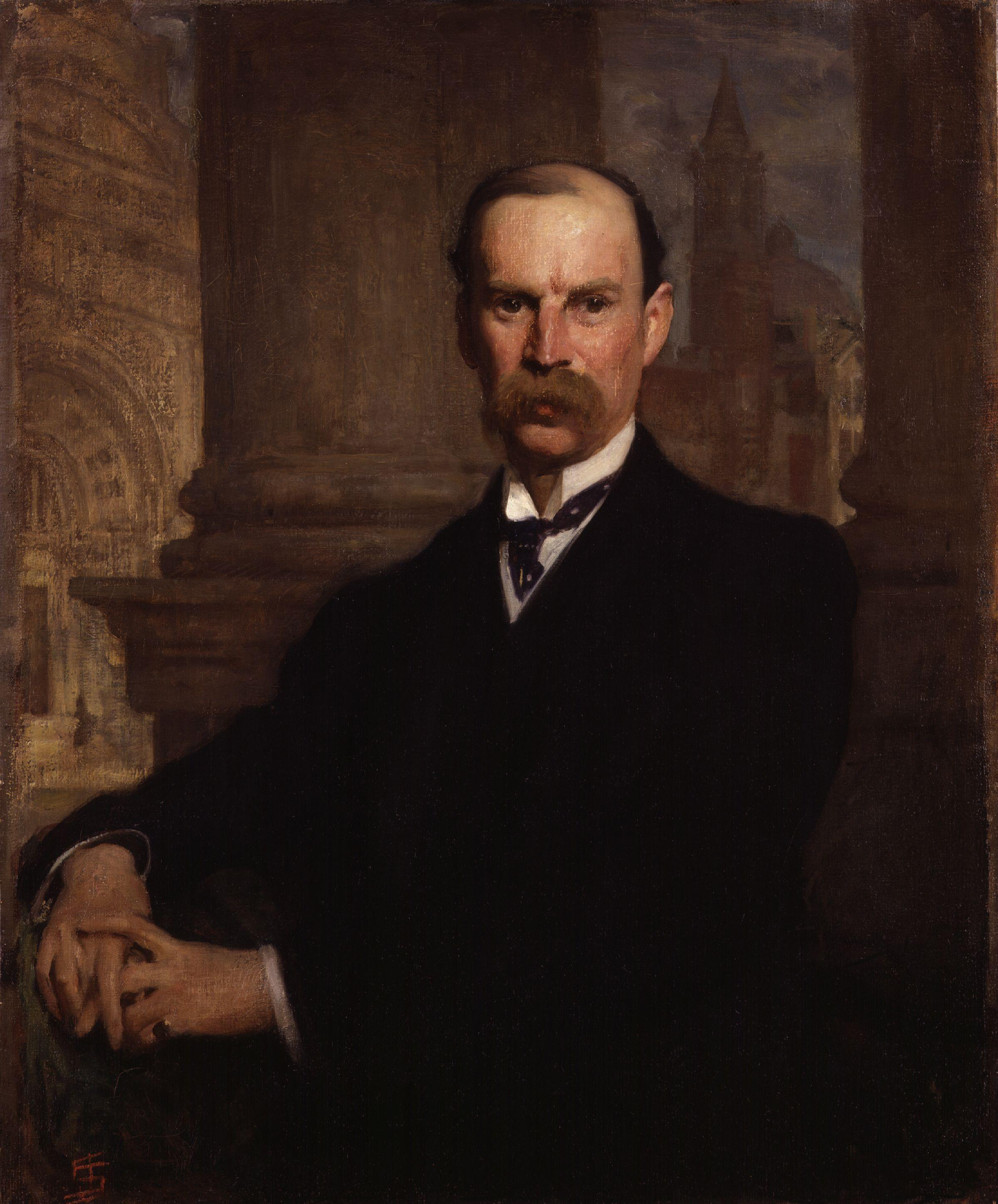 Portrait of Sir Aston Webb, English architect who was President of the Royal Academy of Arts.